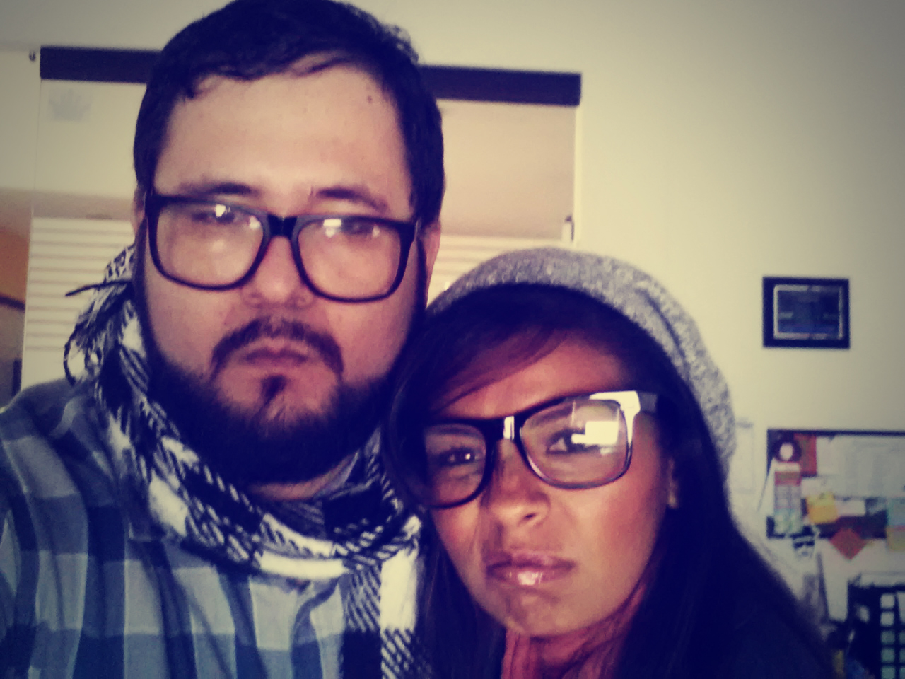 Hipsters A man and a woman identifying their style as "hipster's".